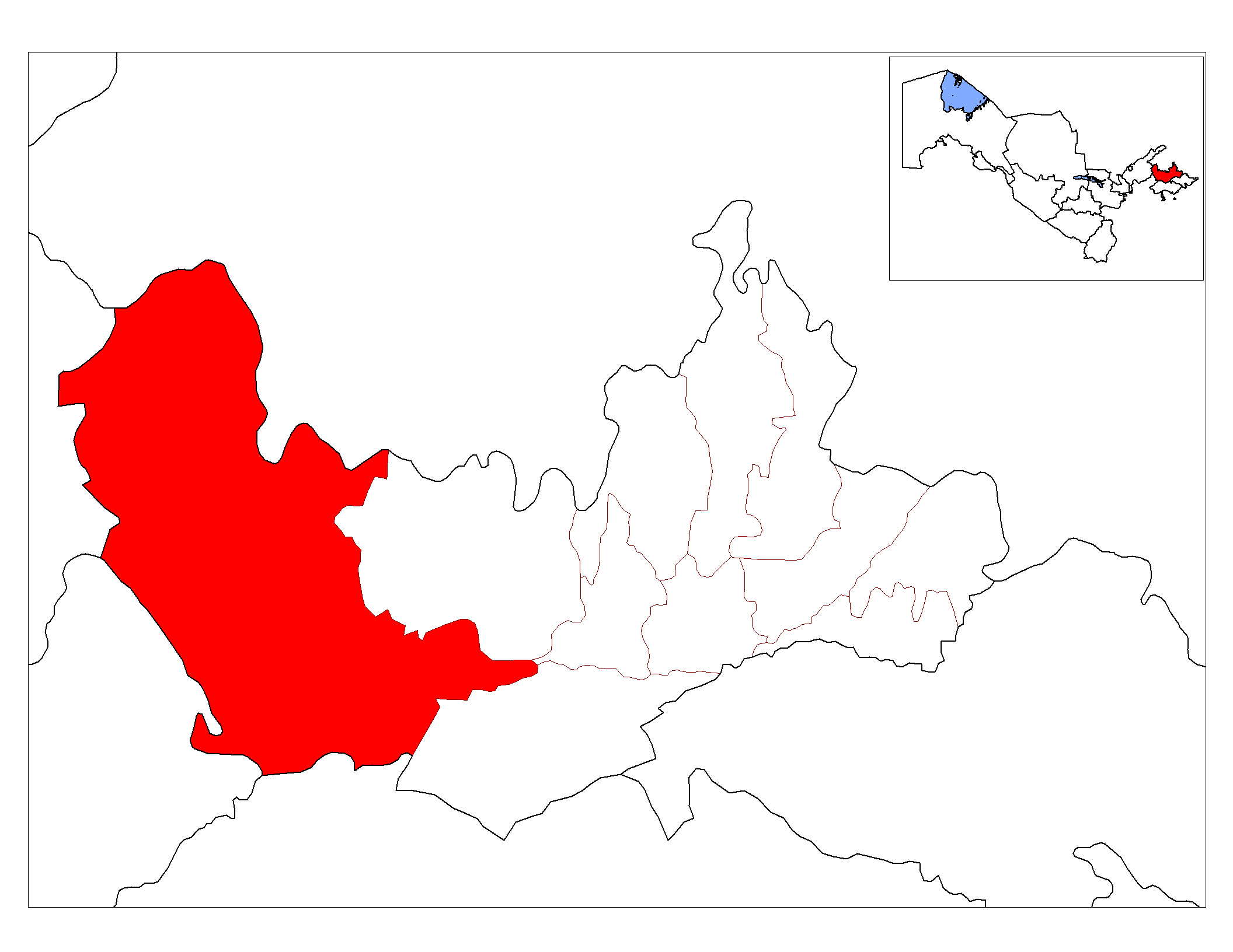 Location map of Pop District in Namangan Province